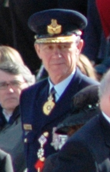 Angus Houston, Chief of the Defence Force (Australia) at the National Anzac Day service, Australian War Memorial, Canberra.